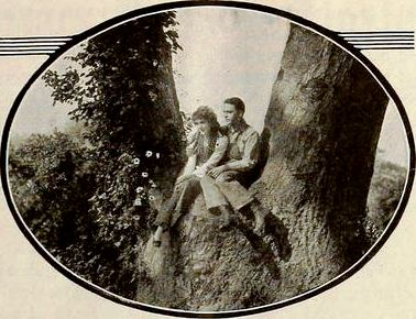 Still (cropped for publication) from the American film Captain Kidd, Jr. (1919) with Mary Pickford and Douglas MacLean, on page 15 of the June 1919 Film Fun.